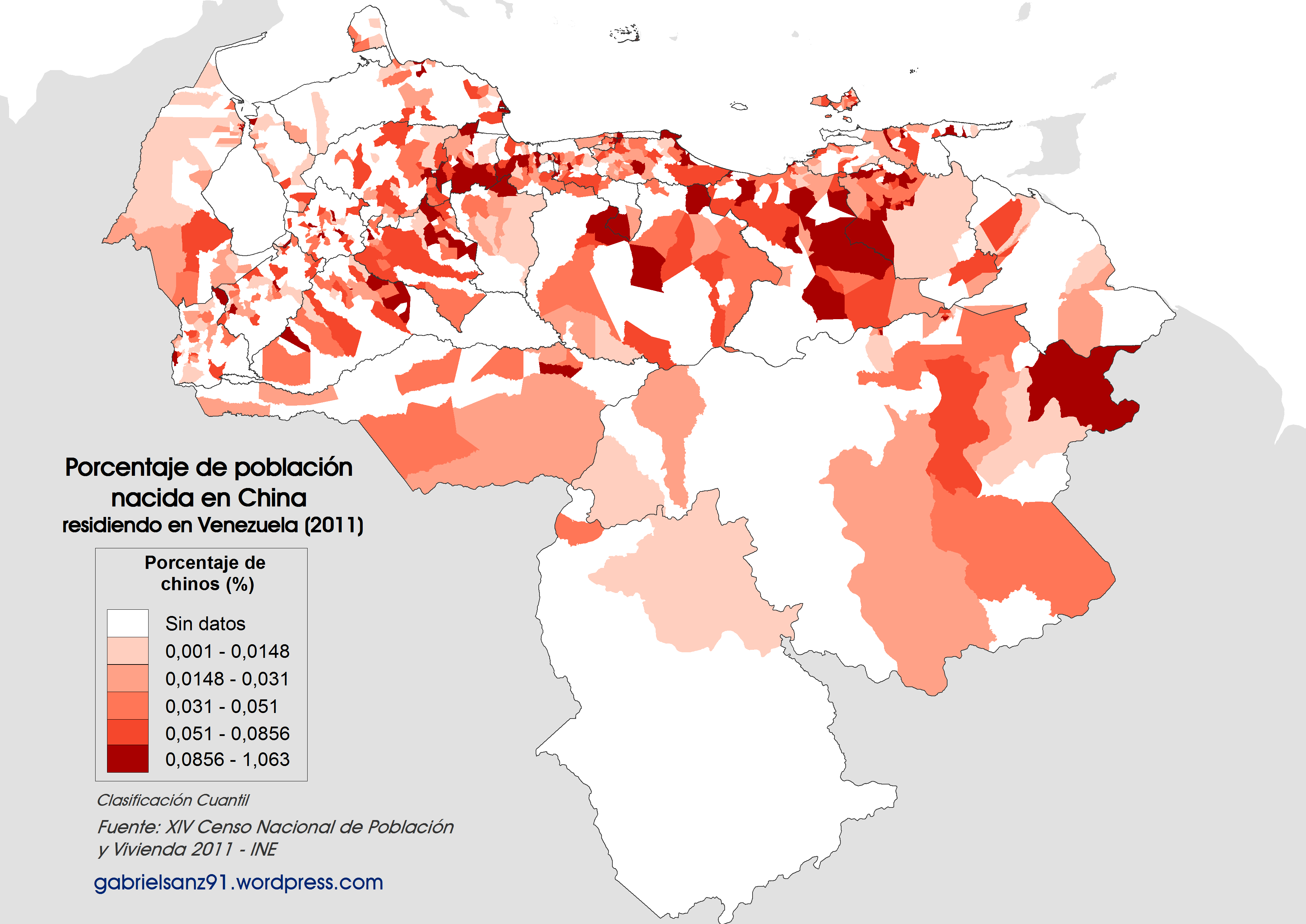 Map of Venezuela, showing percentage of population born in China, by parroquias (parishes) according the 2011 Census.